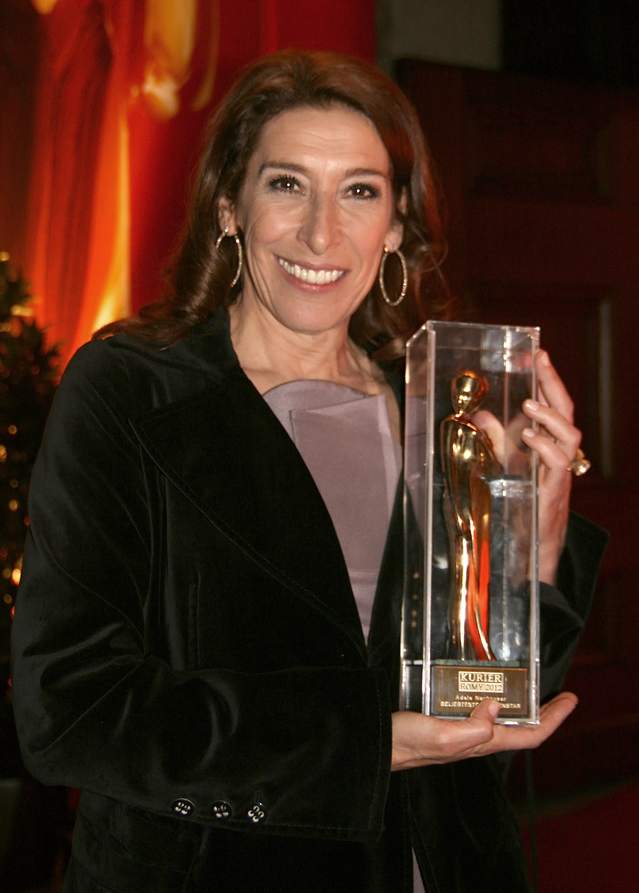 Adele Neuhauser at the Romy TV awards (Hofburg Imperial Palace in Vienna)